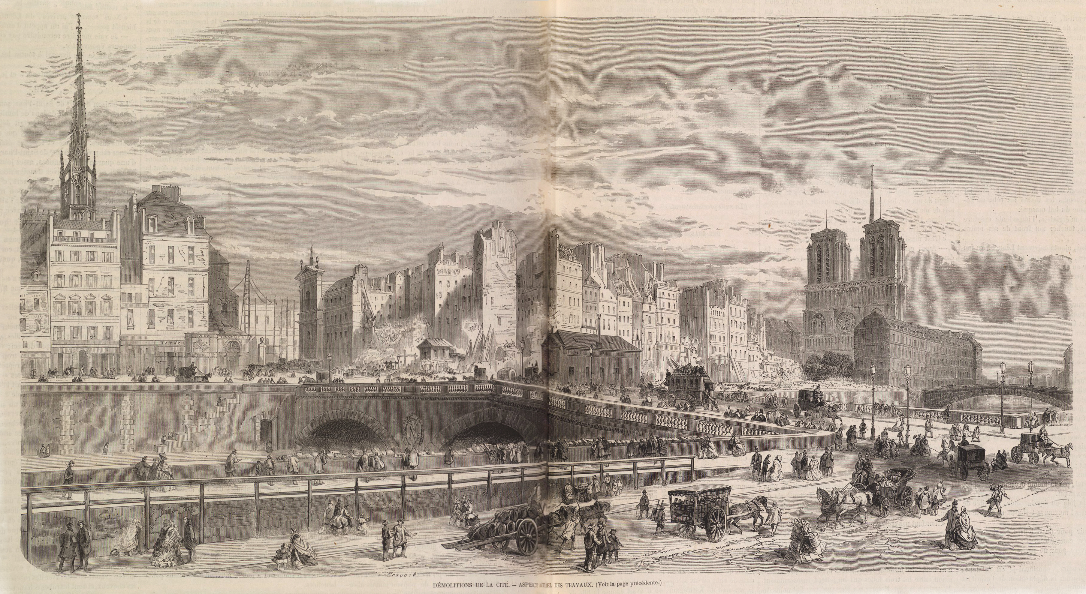 By 1862, Haussmann had been transforming the city for a decade, implementing the new planning policy. On the Ile de la Cité, as this print shows, many small private houses were destroyed. The morgue, which was also on the banks and in the same neighborhood, was demolished at the same time, and relocated further away from the center of the city.